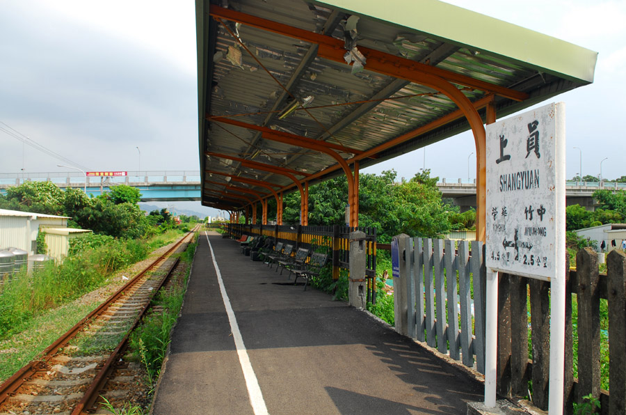 ShangYuan Station is a small local train station on NeiWan Line, a branch line of TRA. The station is located within the boundary of JhuDong Town, HsinChu County